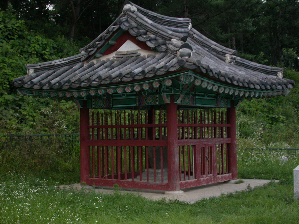 Danyang Silla Jeokseongbi